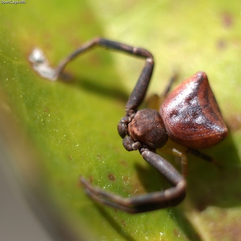 ガザミグモ Crab spider Species Pistius undulatus Familia Thomisidae Other photos; Location Nishi-ku, KOBE City, Japan Copyright OpenCage